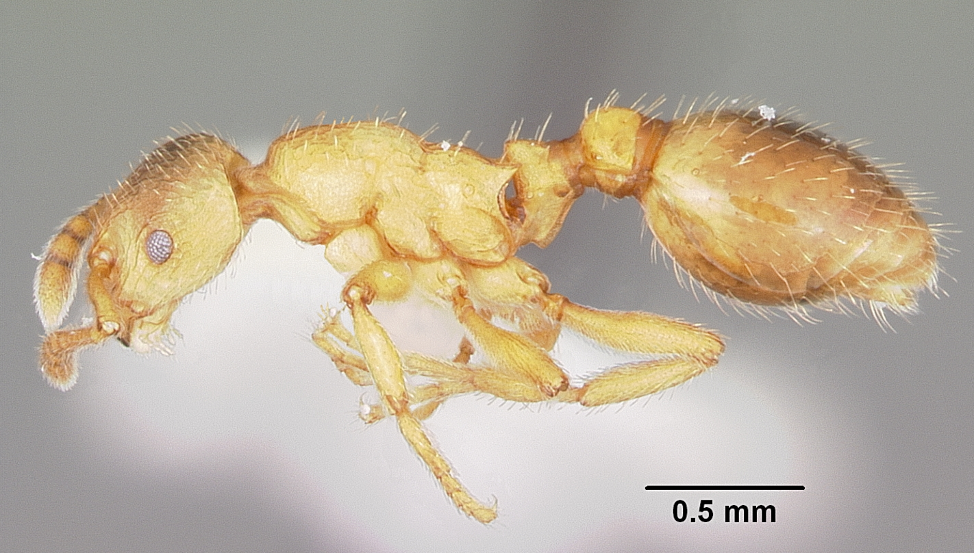 Profile view of ant Formicoxenus provancheri specimen casent0104825.